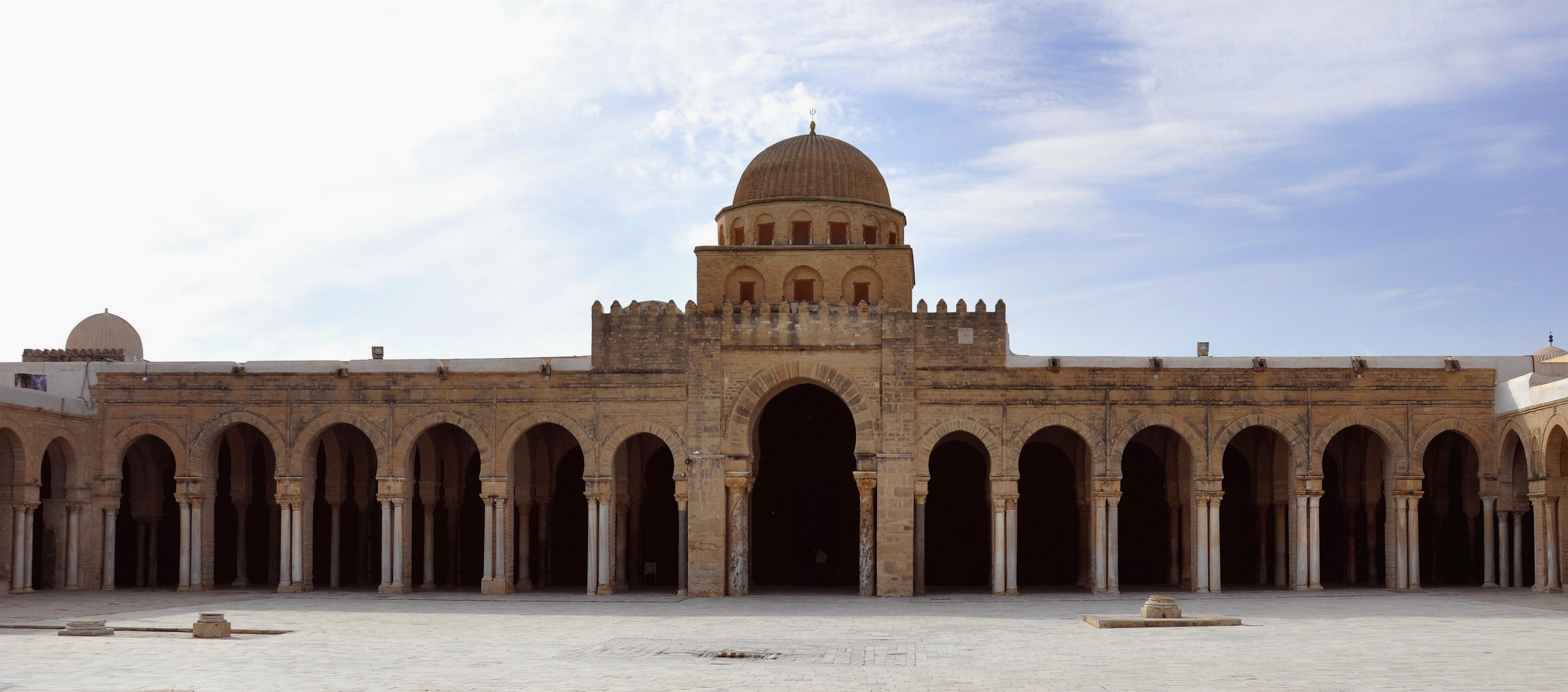 View of the facade of the southern portico of the courtyard in the Great Mosque of Kairouan, Tunisia. Retouched picture without birds requested by User:Sutherland.